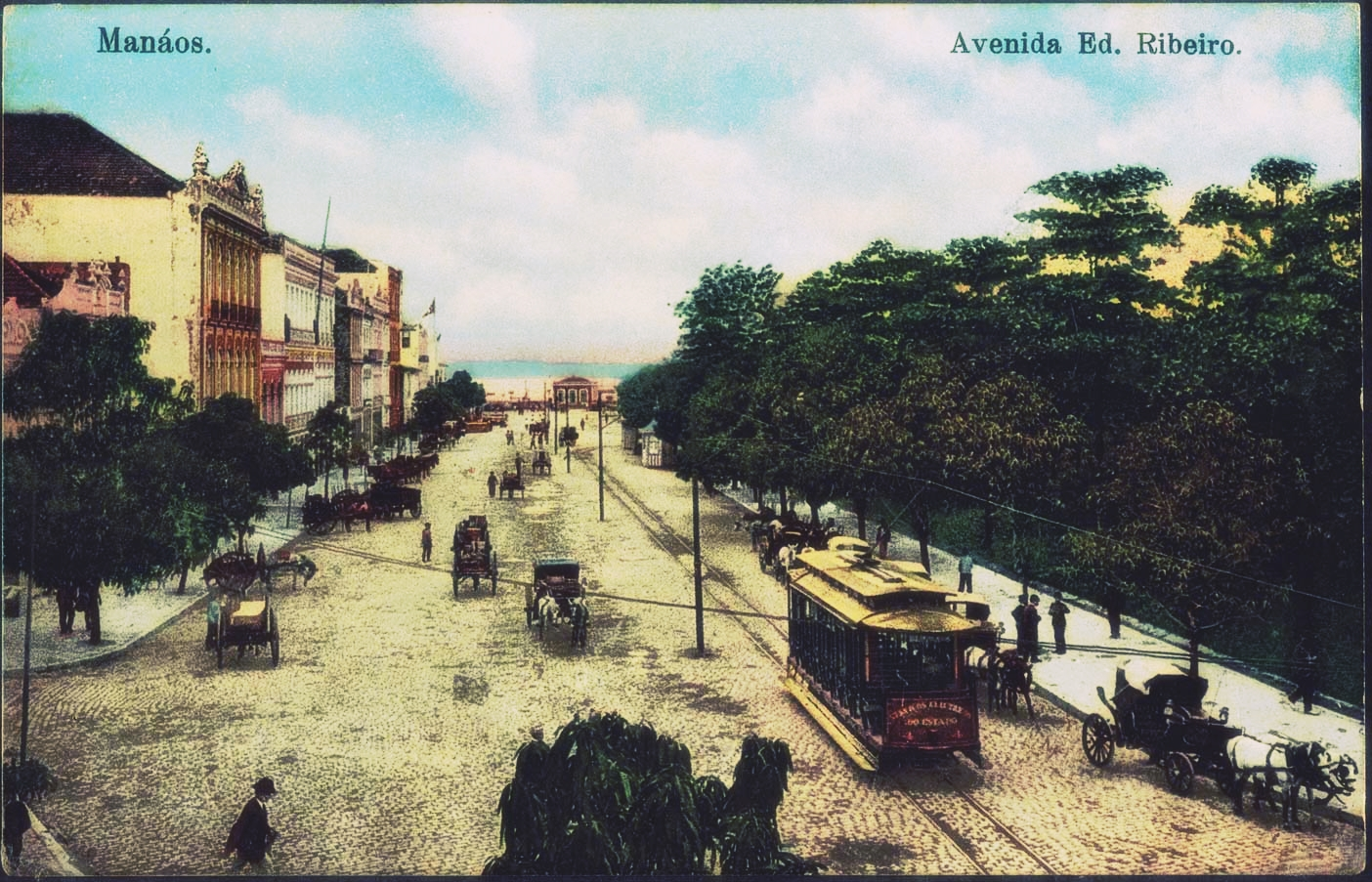 Photograph of Eduardo Ribeiro Avenue, Manaus, Amazonas, Brazil.